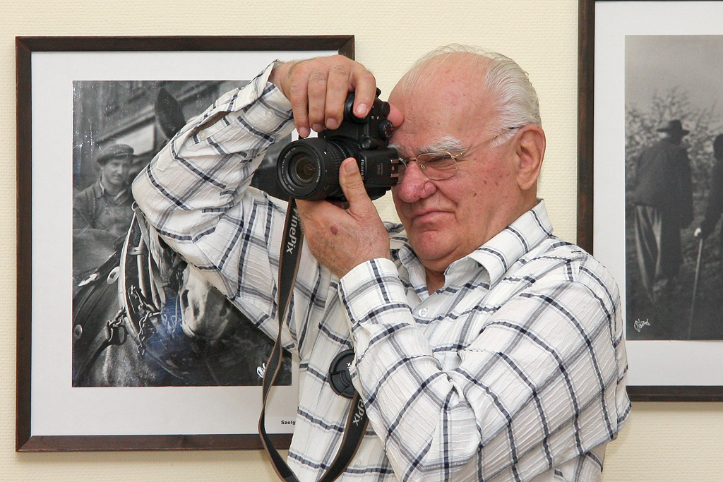 Portrait of István Tóth (photo by Tibor Tánczos)